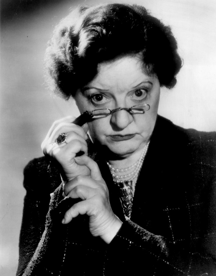 Photo of Marion Lorne as Myrtle Banford from the television program Sally.